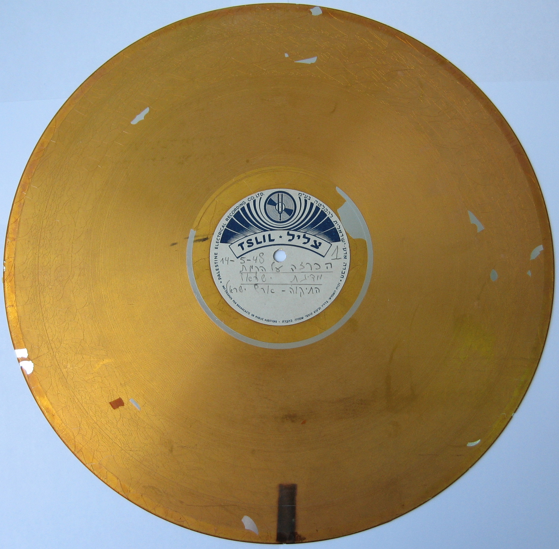 The first side of the series of master records of the Declaration of Independence of the State of Israel